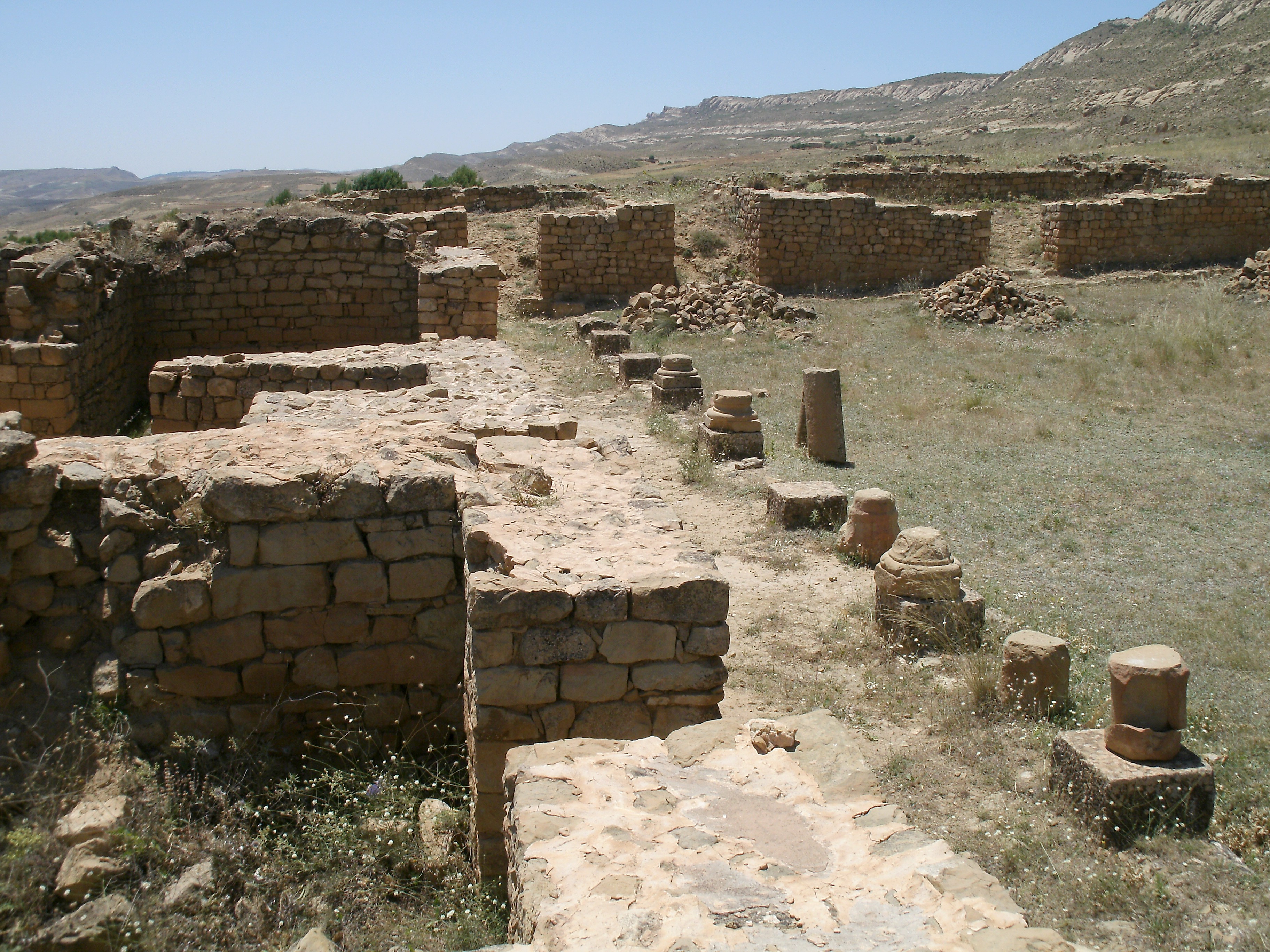 Achir, capitale des Zirides au 10ème siècle